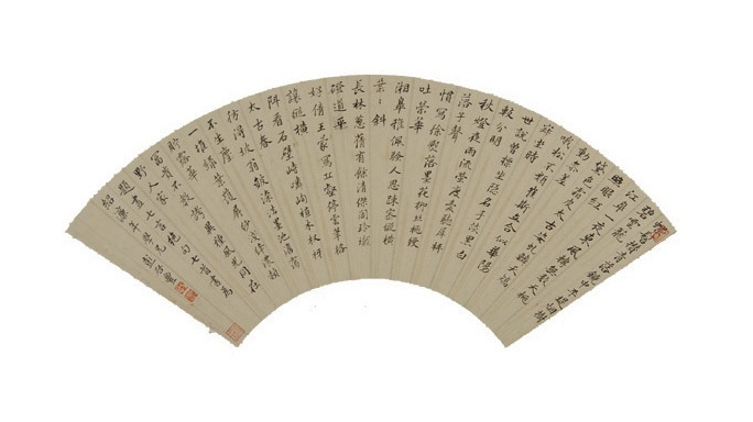 Calligraphy of Peng Qifeng, who is a "Zhuangyuan" in Ching Dynasty.